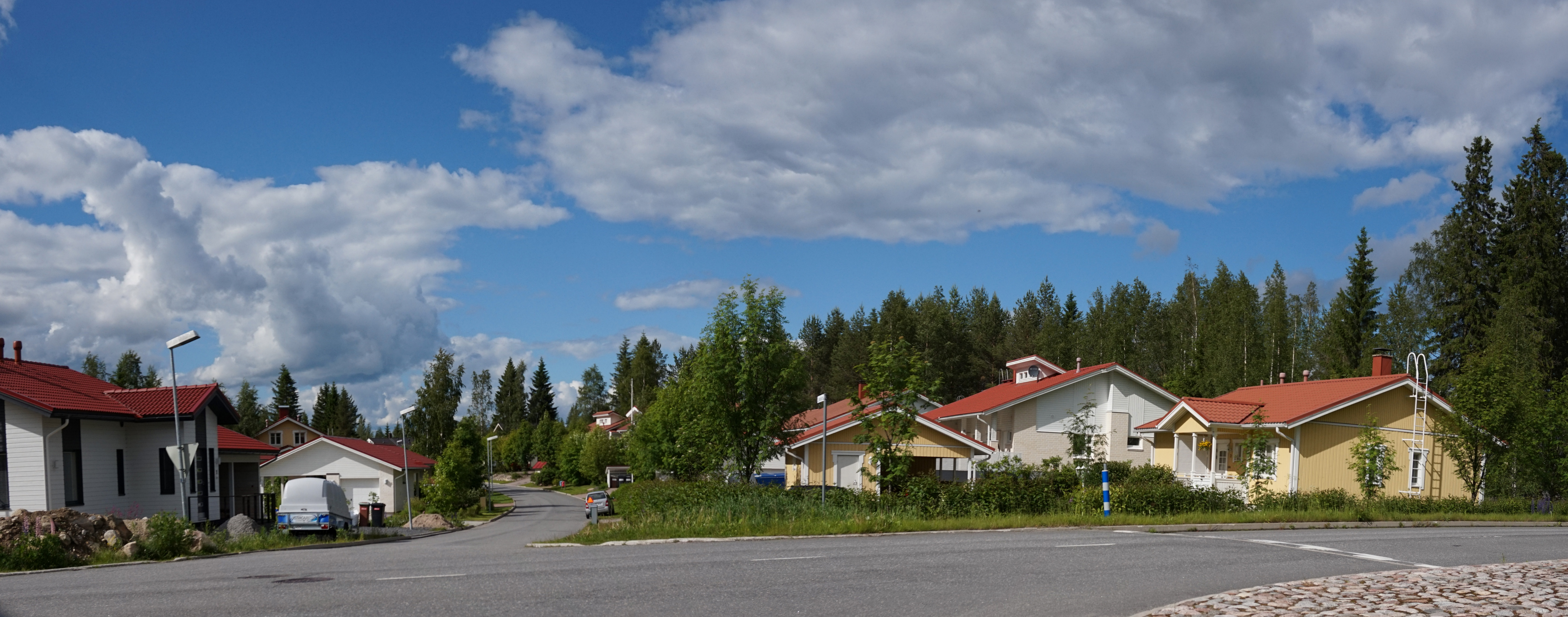 Ylämyllyjärvi area in Keltinmäki district, Jyväskylä.This photograph was taken with a Sony ILCE-5000